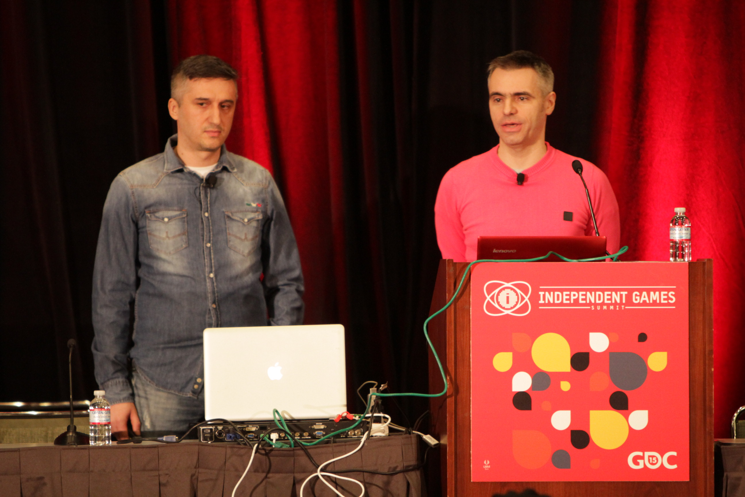 Croteam's CTO Alen Ladavac (right) and CCO Davor Hunski presenting at the 2015 GDC on the Talos Principle.